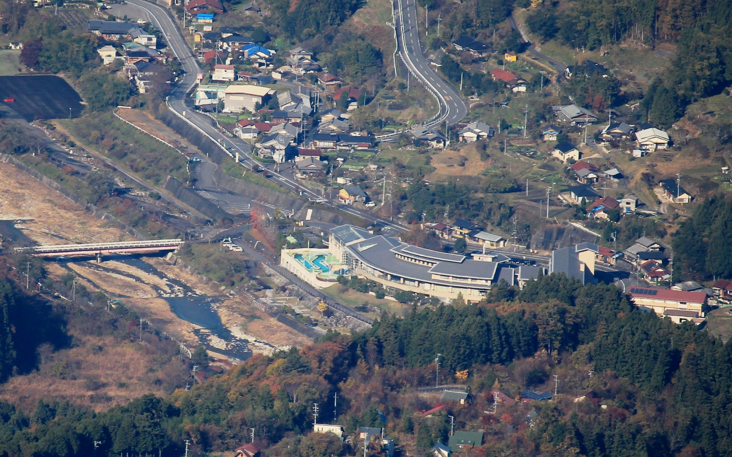 Kur Resort Yubunezawa seen from Fujimidai, in Nakatsugawa, Gifu prefecture, Japan.